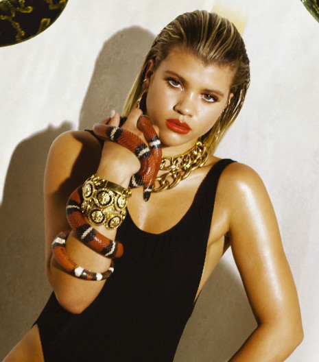 Image of model Sofia Richie at photoshoot